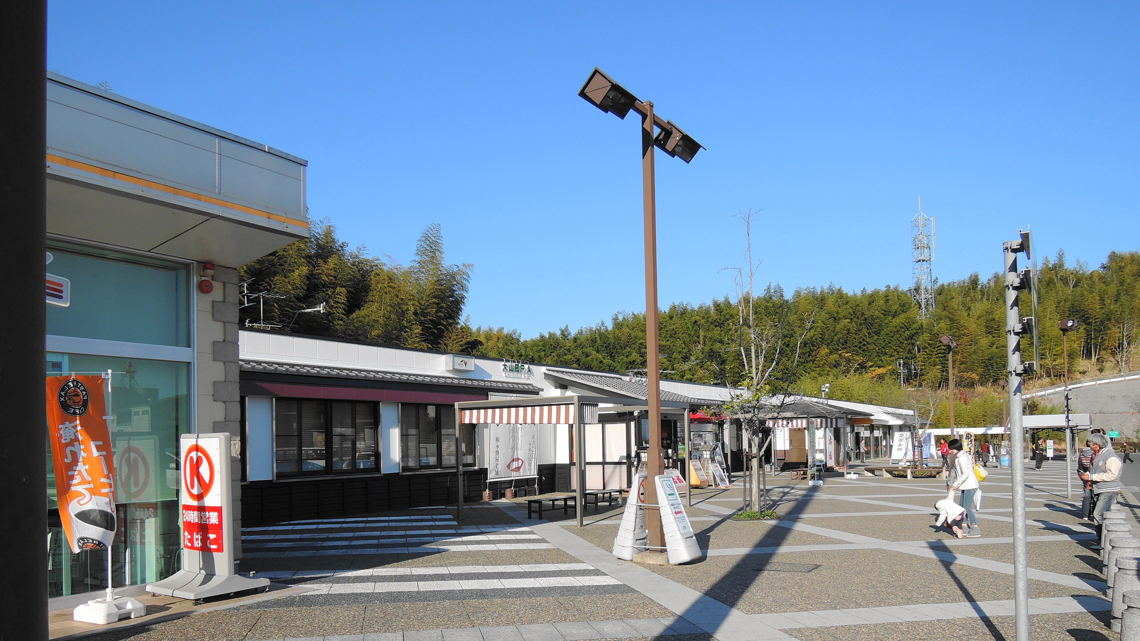 Ōyamada Parking Area,Mie prefecture, Japan